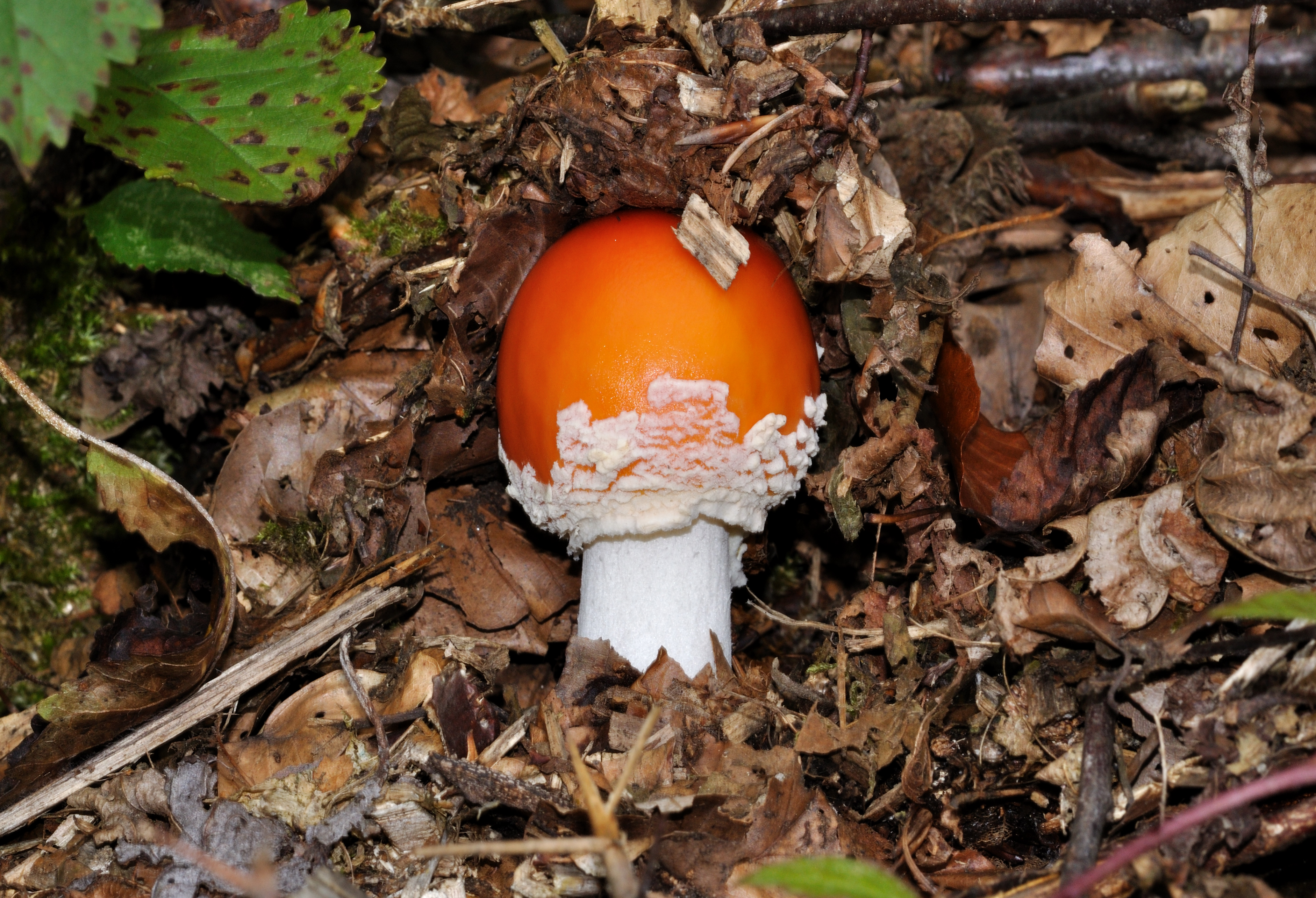 Young Fly Agaric (Amanita muscaria) near Biggesee, Sauerland, Germany.